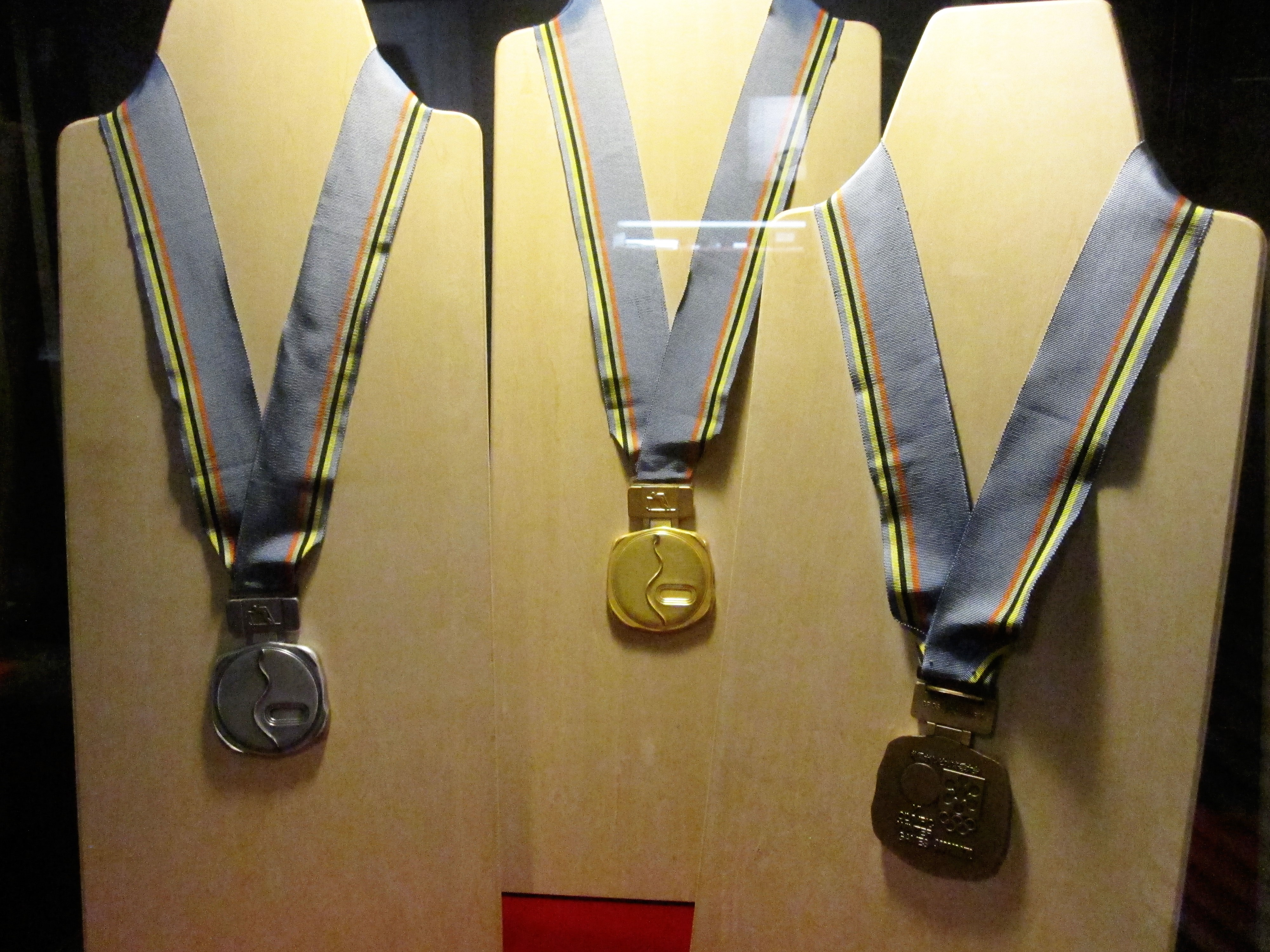 1972 Winter Olympics medals, displayed in Japan Mint Saitama Museum.